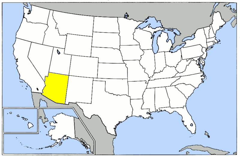 37th Flying Training Wing (World War II) - Map. Based upon for basemap; Lineage and History of 31st Flying Training Wing (World War II); United States Air Force Historical Research Agency Document, Maxwell AFB, Alabama